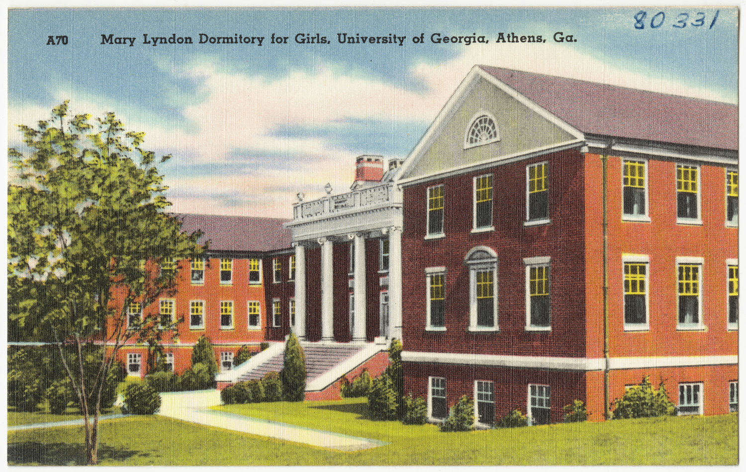 File name: 06_10_013860 Title: Mary Lyndon Dormitory for Girls, University of Georgia, Athens, Ga. Date issued: 1930 - 1945 (approximate) Physical description: 1 print (postcard) : linen texture, color ; 3 1/2 x 5 1/2 in. Genre: Postcards Subject: Universities & colleges Notes: Title from item. Collection: The Tichnor Brothers Collection Location: Boston Public Library, Print Department Rights: No known restrictions